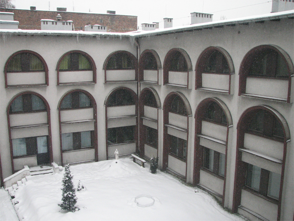 Franciscan Monastery in Chorzów Klimzowiec, Poland (cloister)